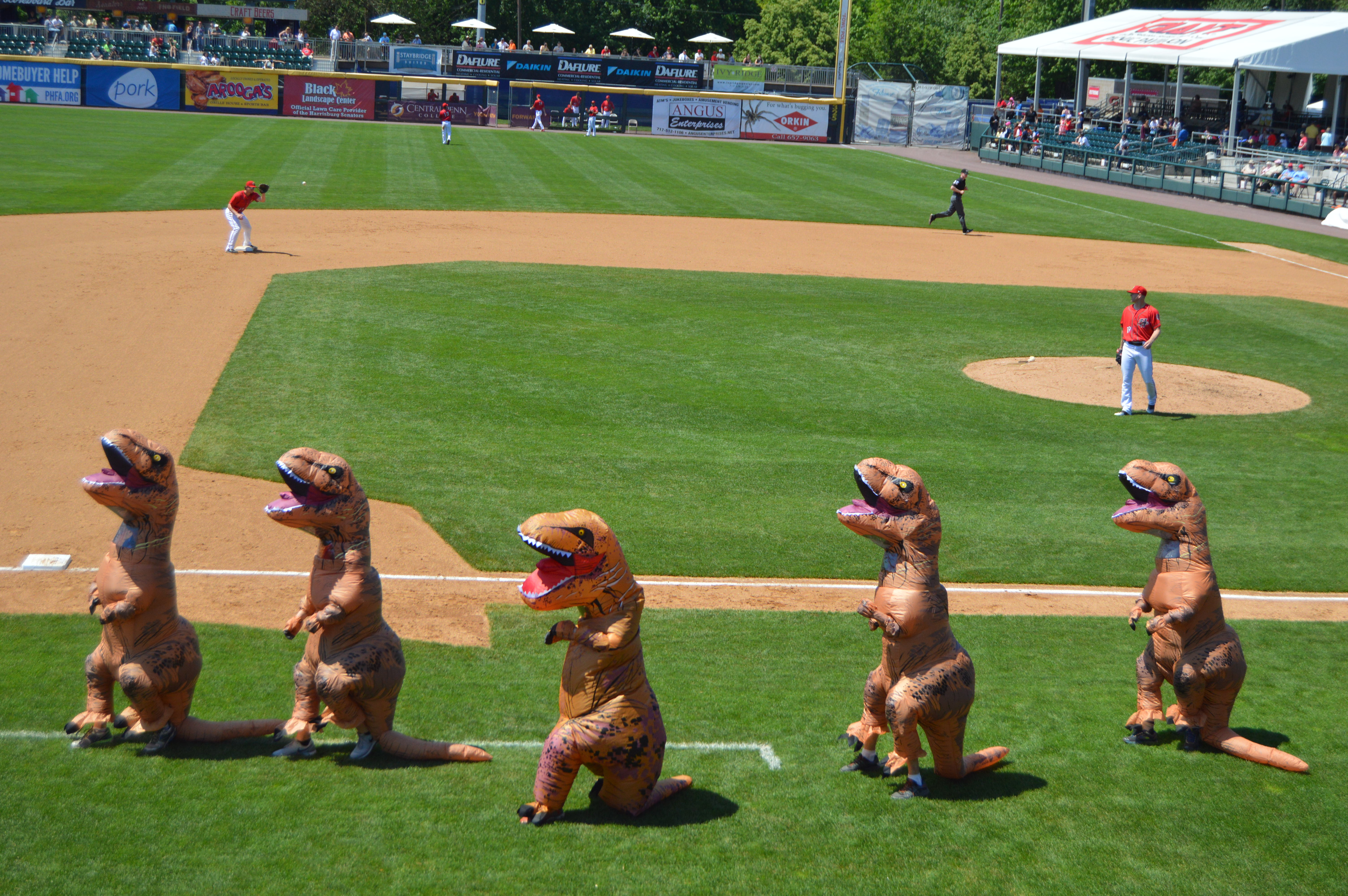 Dinosaur dance at Harrisburg Senators FNB Park on City Island